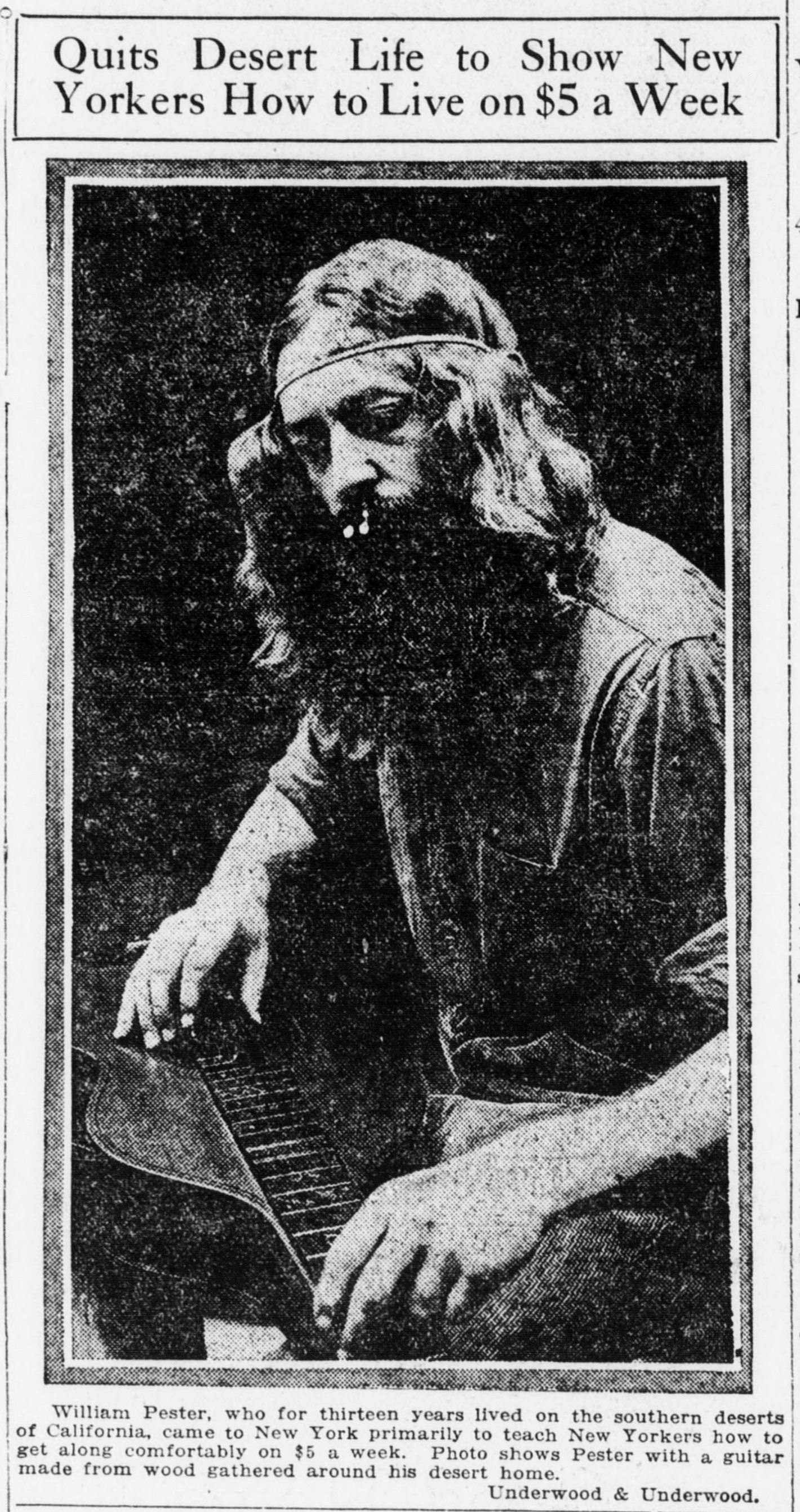 Yorkers How to Live on $5 a Week William Pester, who for thirteen years lived on the southern deserts of California, came to New York primarily to teach New Yorkers how to get along comfortably on #5 a week ($72 in 2019). Photo shows Pester with a guitar made from wood gathered around his desert home.